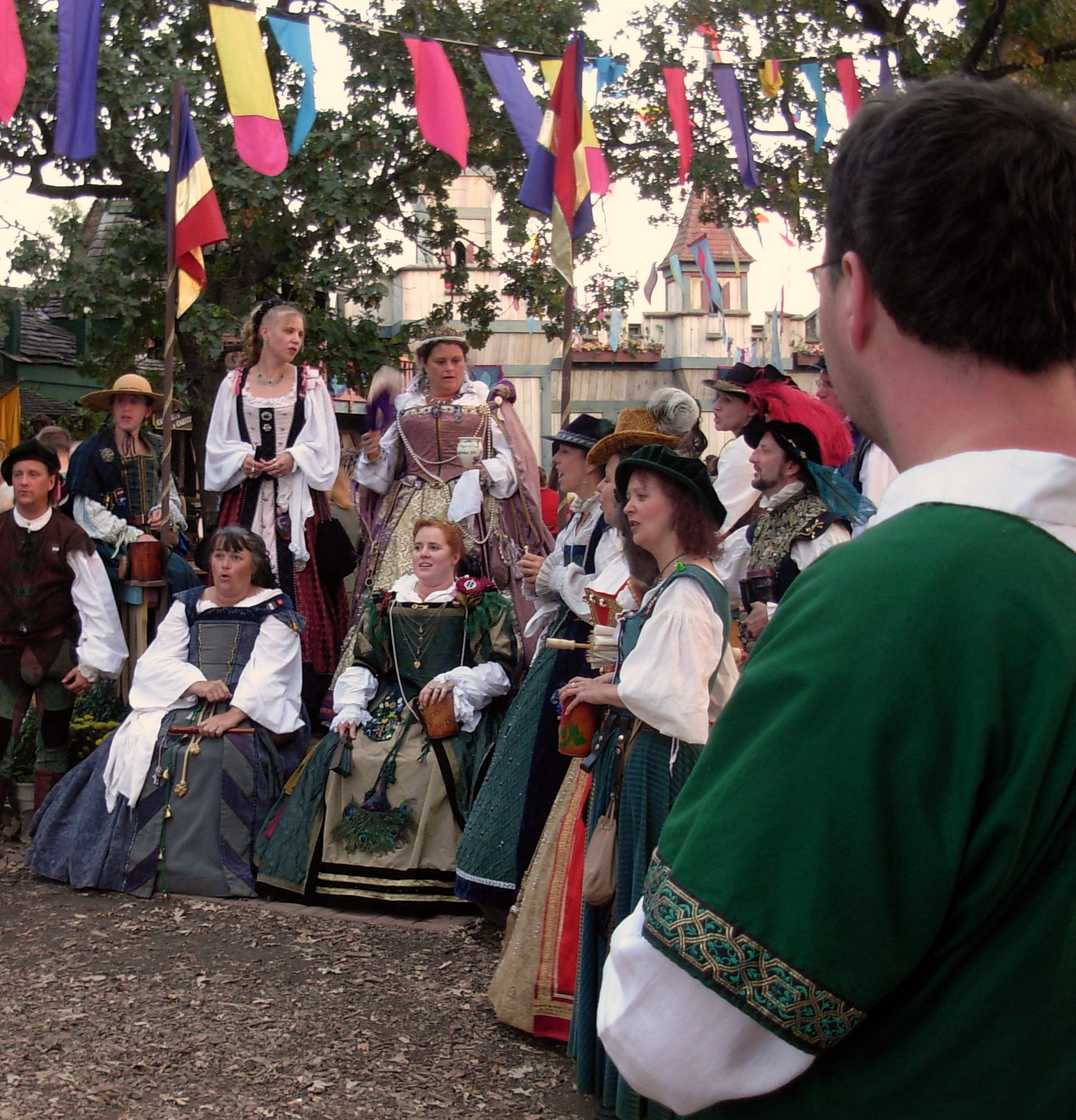 Costumed actors singing behind the main entrance to the Minnesota Renaissance Festival